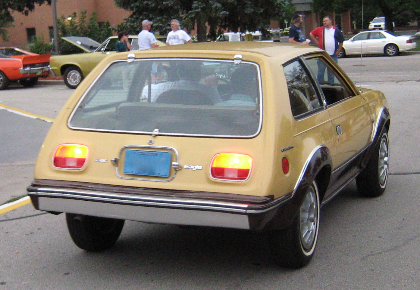 AMC Eagle Kammback a four-wheel-drive two-door sedan manufactured by American Motors Corporation during 1981 and 1982. Picture taken in Kenosha, Wisconsin.